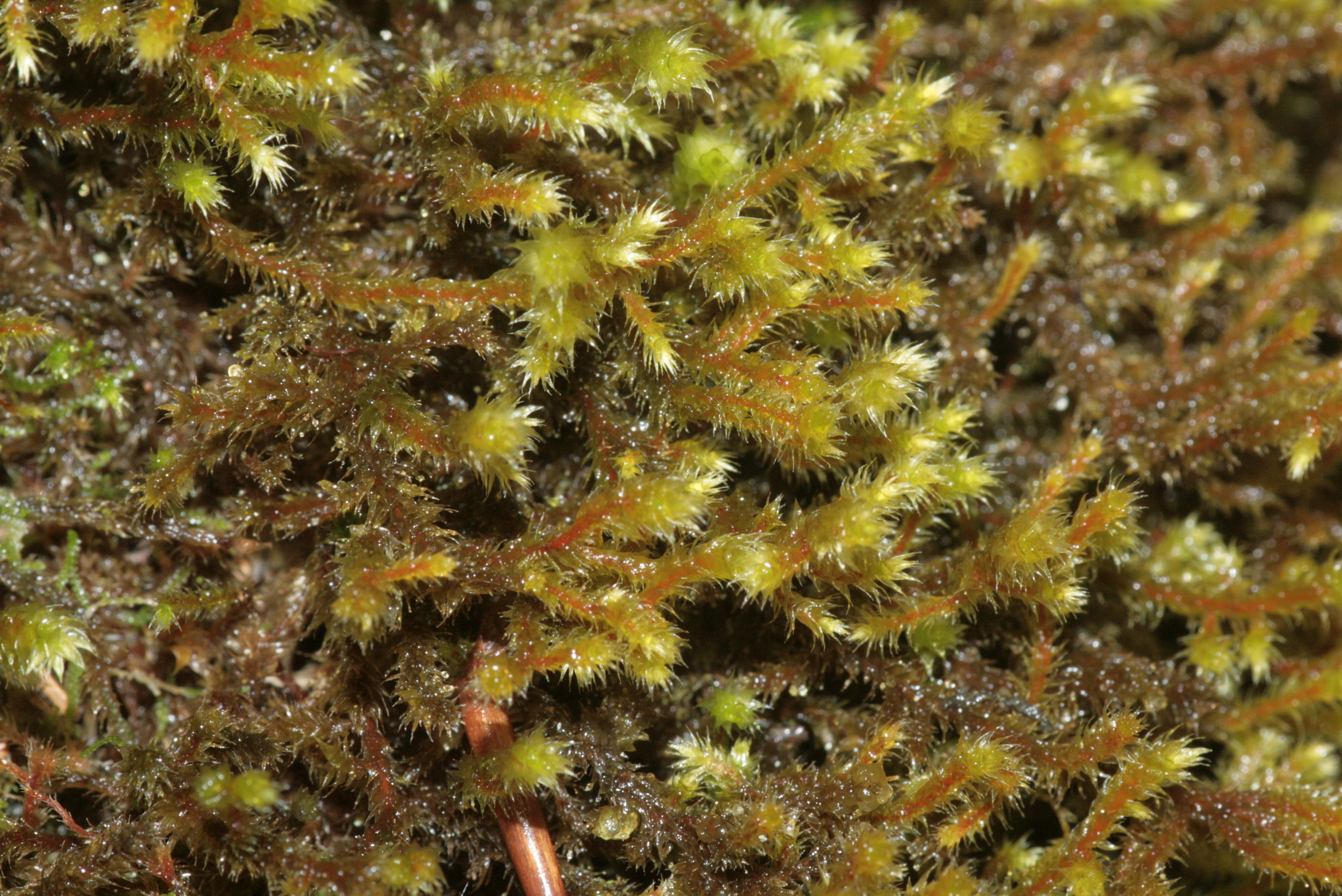 Antitrichia curtipendula